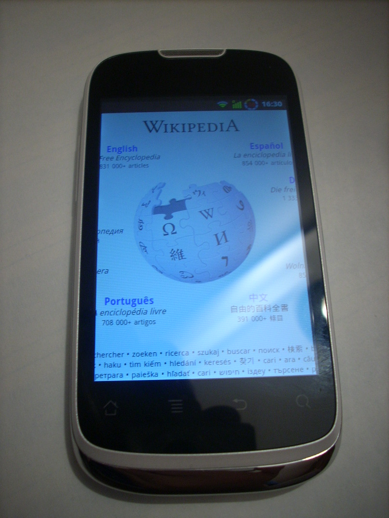 Huawei U8560 Sonic